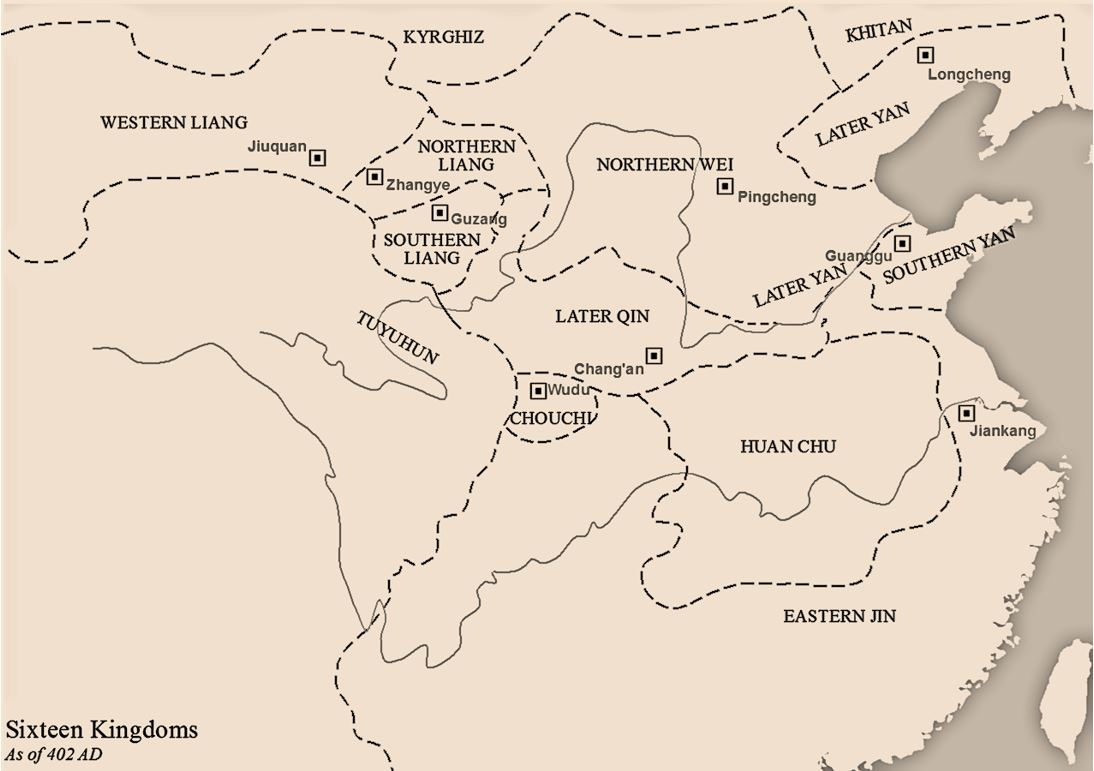 Map of Sixteen Kingdoms as of 402 AD